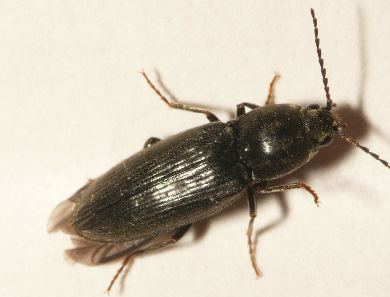 Dicronychus cinereus. Location: The Netherlands - Rhenen - Grebbeberg